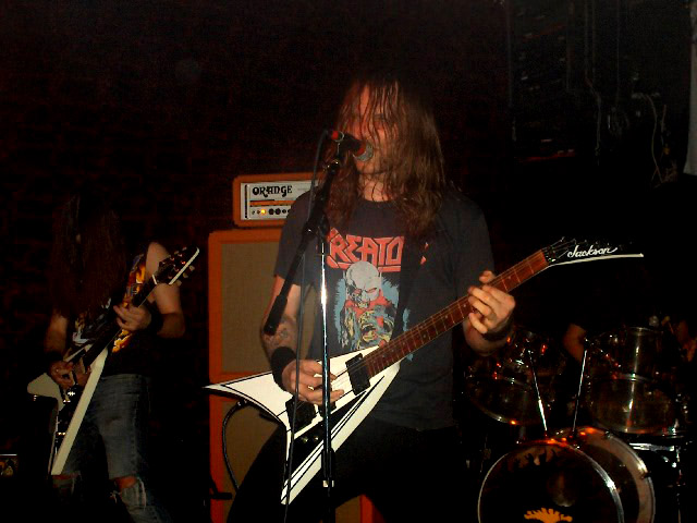 I took this photo and allow it's use.